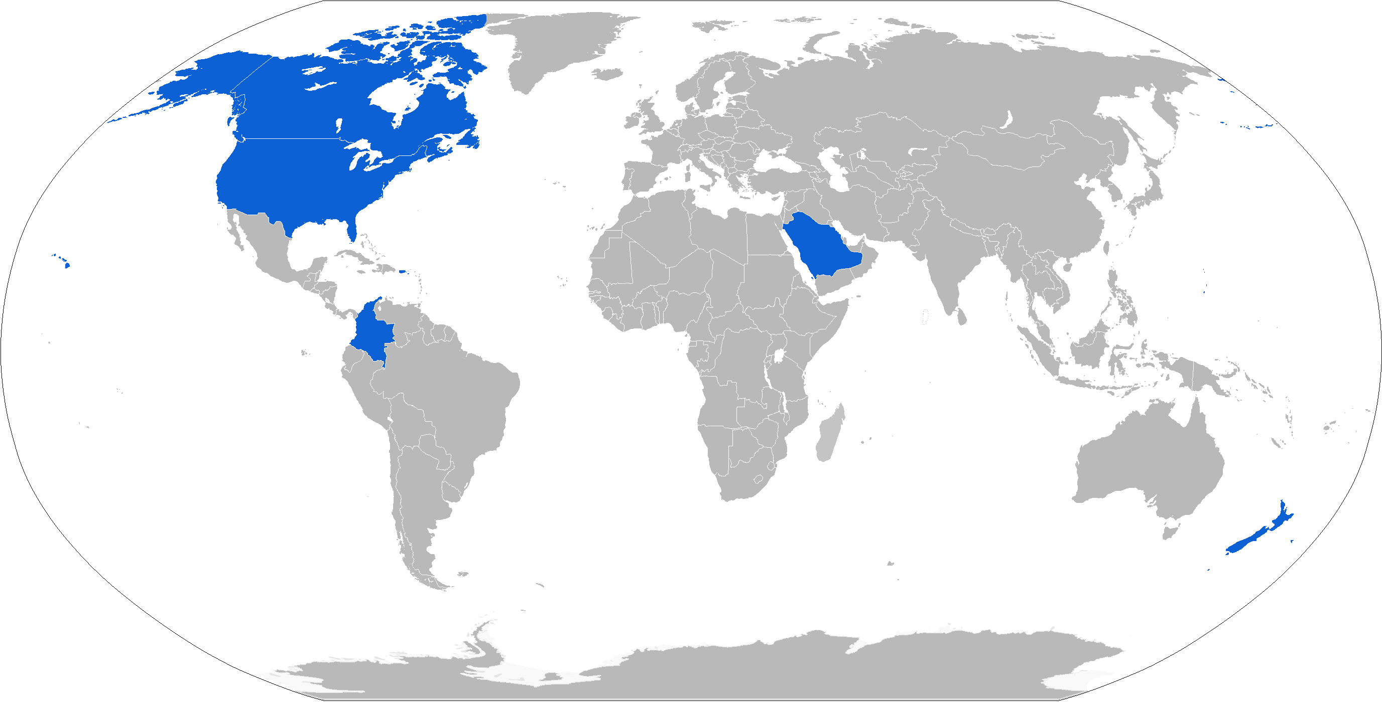 Map of LAV III operators in blue